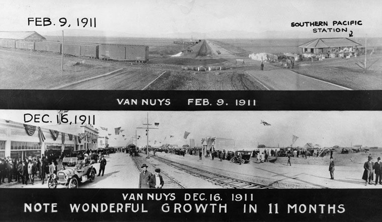 These two photographs depict the rapid growth of Van Nuys in the first few months following its founding. Top photograph, taken on Feb. 9th, 1911, shows first building erected, the Southern Pacific railroad station. Bottom photograph, taken Dec. 16th, 1911, shows Van Nuys Boulevard, with the Pacific Electric line in the center and a good start towards building a city.